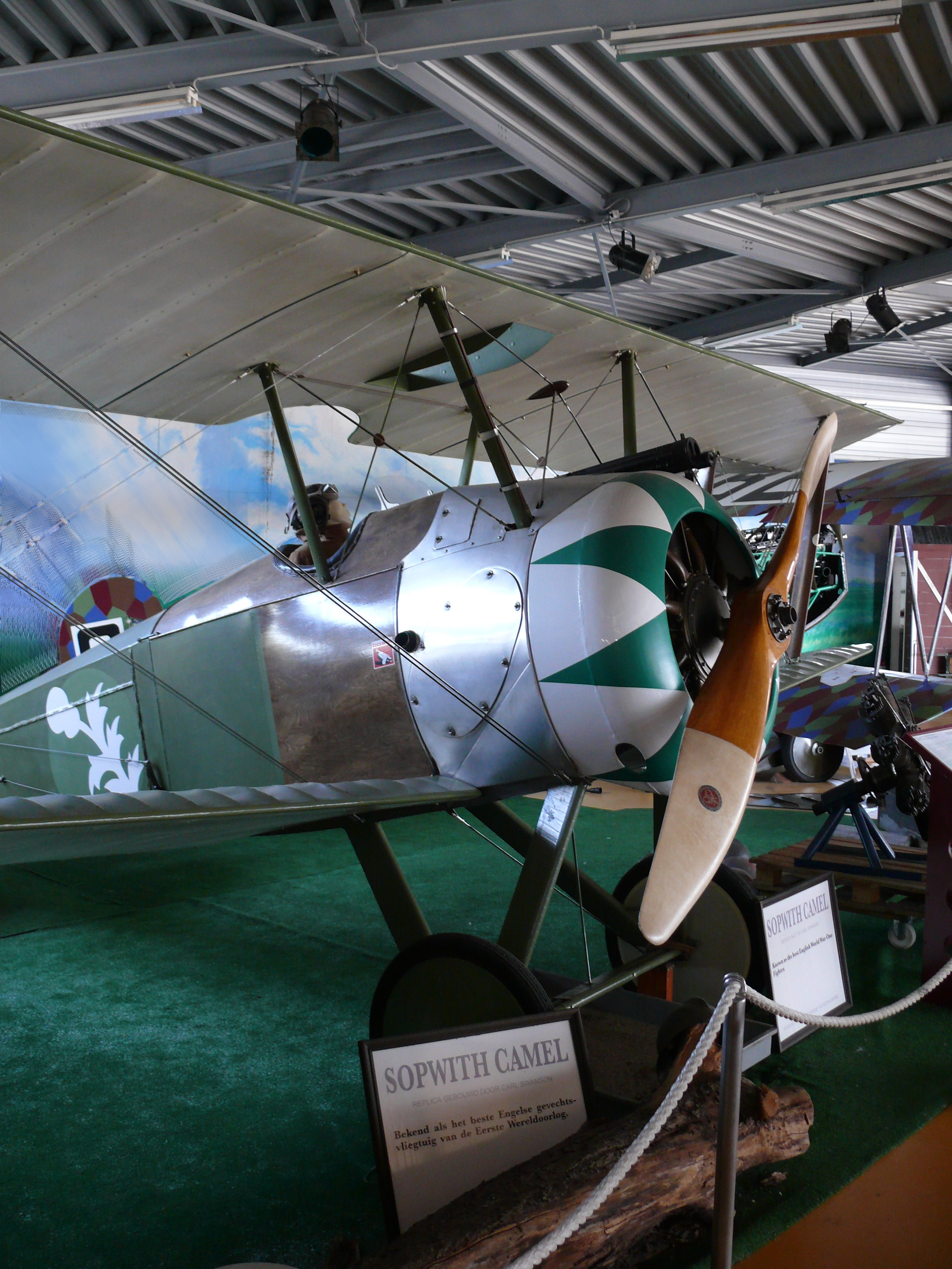 Replica of a Sopwith Camel (N2257J; built by Carl Swanson) in the Stampe en Vertongen Museum. It is painted in the colours of the 1st squadron of the Belgian Air Force.